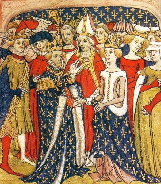 Maria of Brabant's marriage with the French king Philip III of France, miniature in the manuscript Chroniques de France ou de St. Denis, British Library, London.